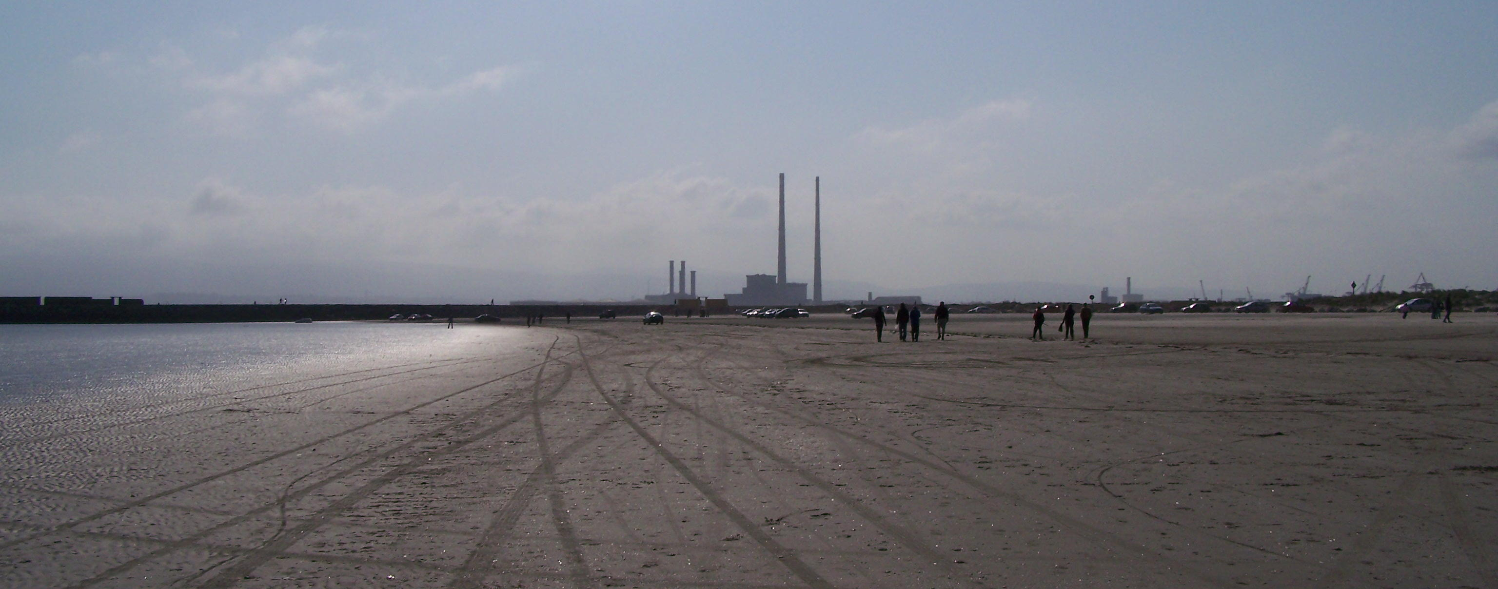 Rory Deegan